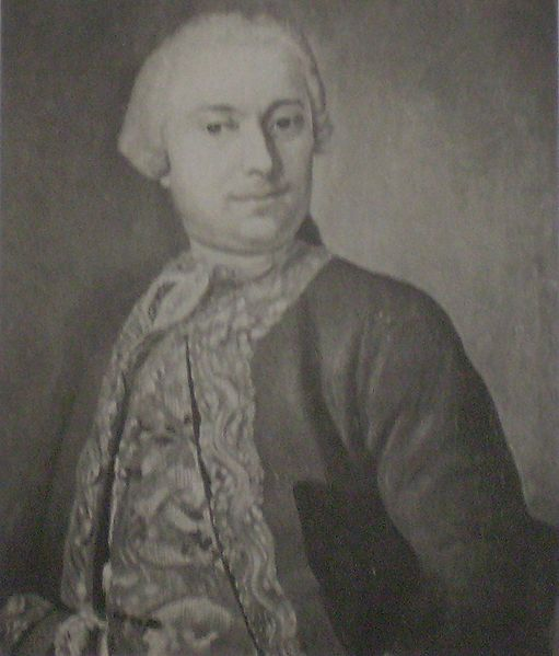 Nicolás del Campo, Marquis of Loreto (1725 — 1803). Viceroy of Río de la Plata between 1784 and 1789.